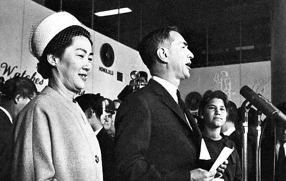 Edwin Oldfather Reischauer and his wife